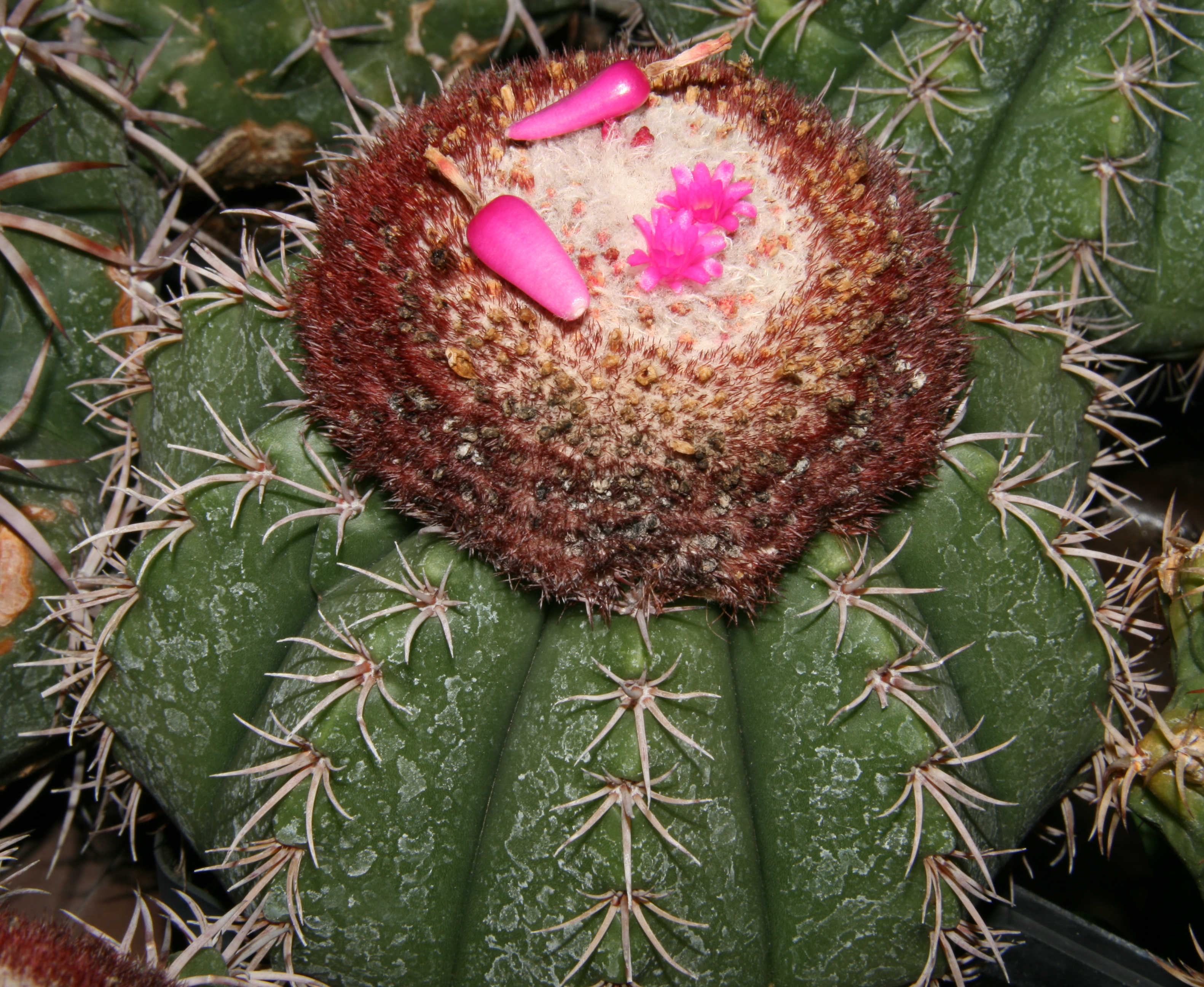 plant of holotype collection, C Bahia, Brasil